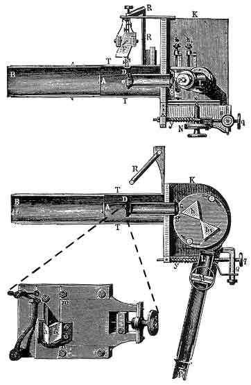 William Huggins' direct comparison spectroscope, with enlargement showing comparison prism fixed on the slit